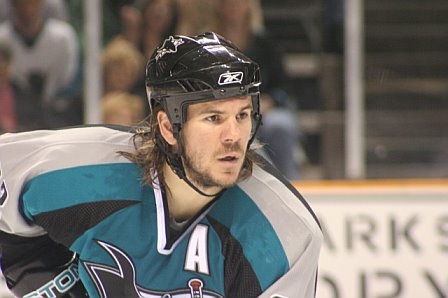 Photo taken by Robin Rodrigues